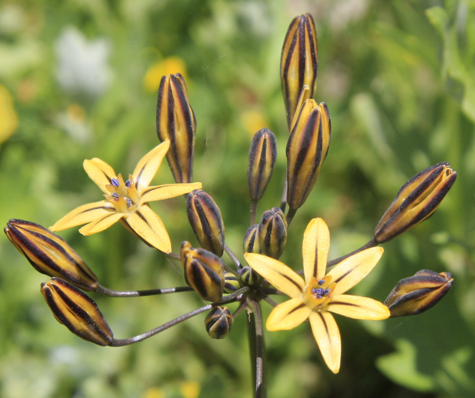 Pretty face (Triteleia ixioides ssp. anilina) closeup of flowers, including fused stamen tube, blue stamens, and brown-striped golden flowers. At 2,680 m (8,790 ft) along High Trail (part of Pacific Crest Trail) from Agnew Meadows to Agnew Pass, Ansel Adams Wilderness, California.